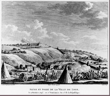 Fusillades at Lyon, Ordered by Collot–D’Herbois